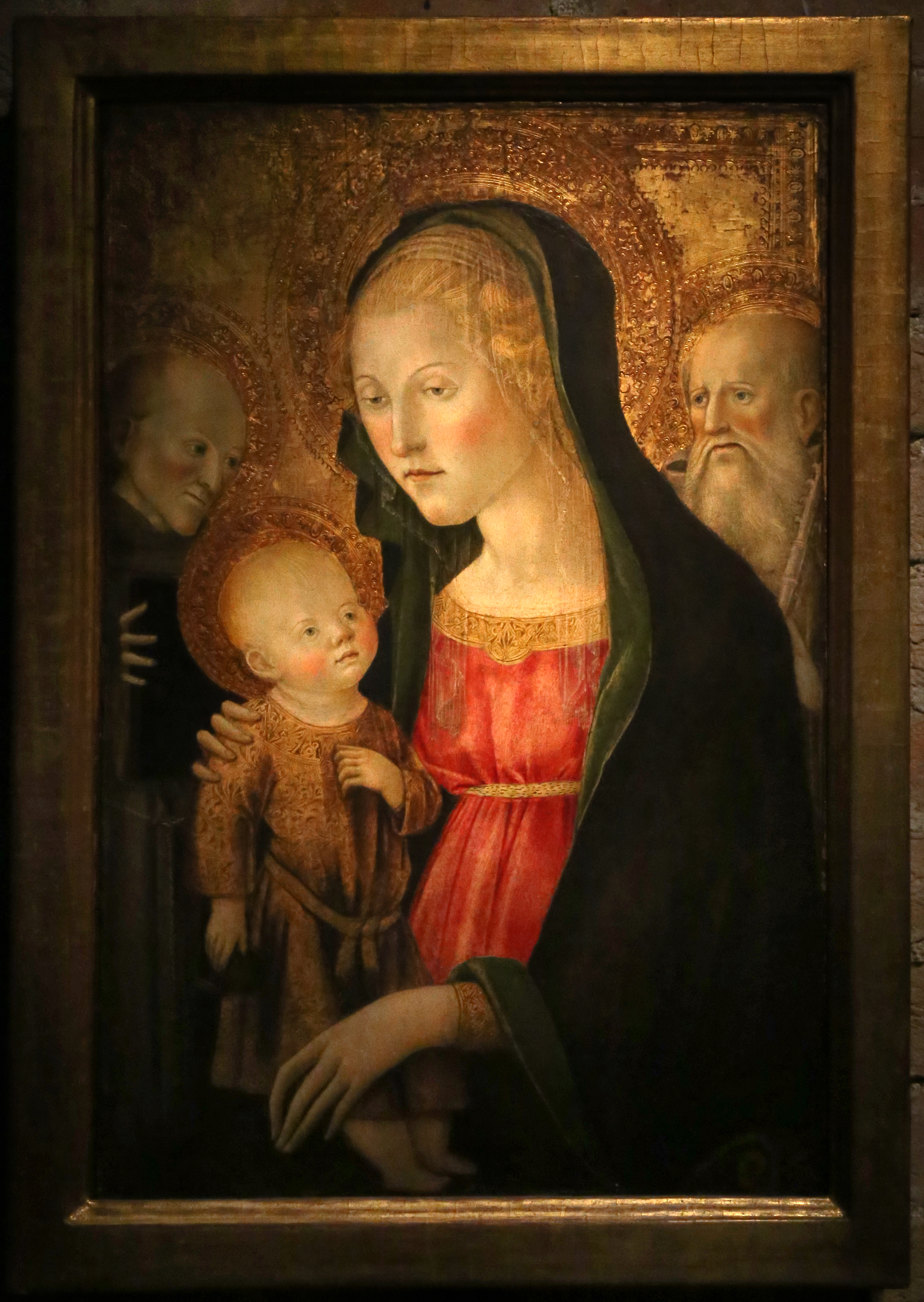 Salini Collection temporary exhibition (2017)